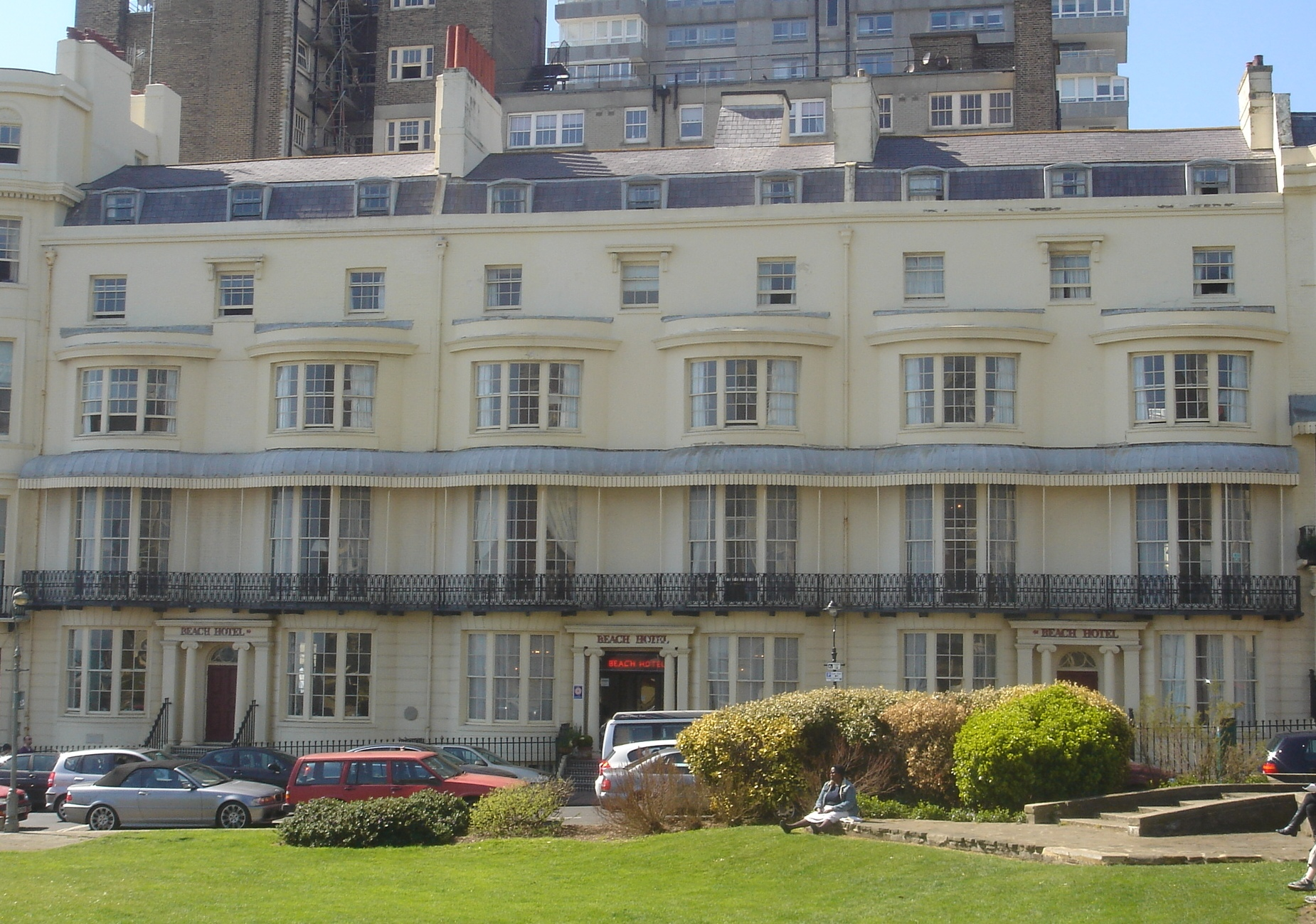 2–4 Regency Square, Brighton, City of Brighton and Hove, England. The southwest part of the Regency Square development built in Brighton around 1818. Listed at Grade II* by English Heritage (IoE Code 481126)